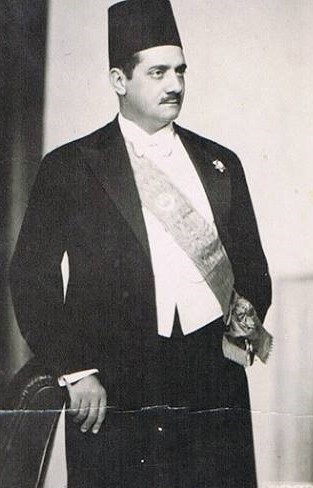 Yousef Elgendy (1893 - 1941) Egyptian Politician.